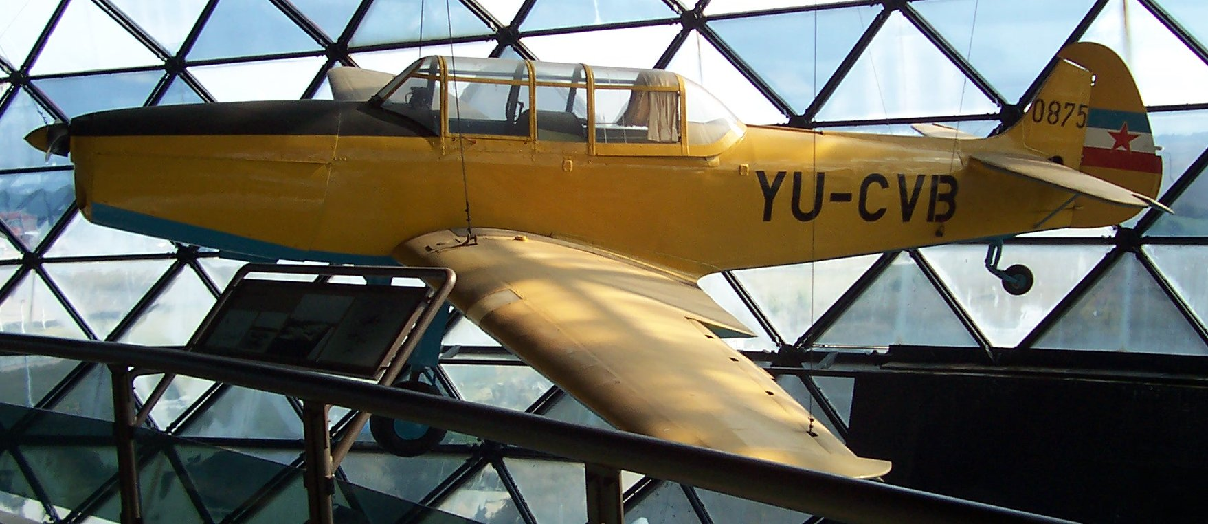 Image shows Yugoslav airplane Aero-2D, in the Museum of Yugoslav Aviation, Belgrade, Serbia. Airplane was used for pilot training in YUAF from 1948 to 1959, and later for civilian use.